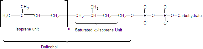 Dolichol chemical structure